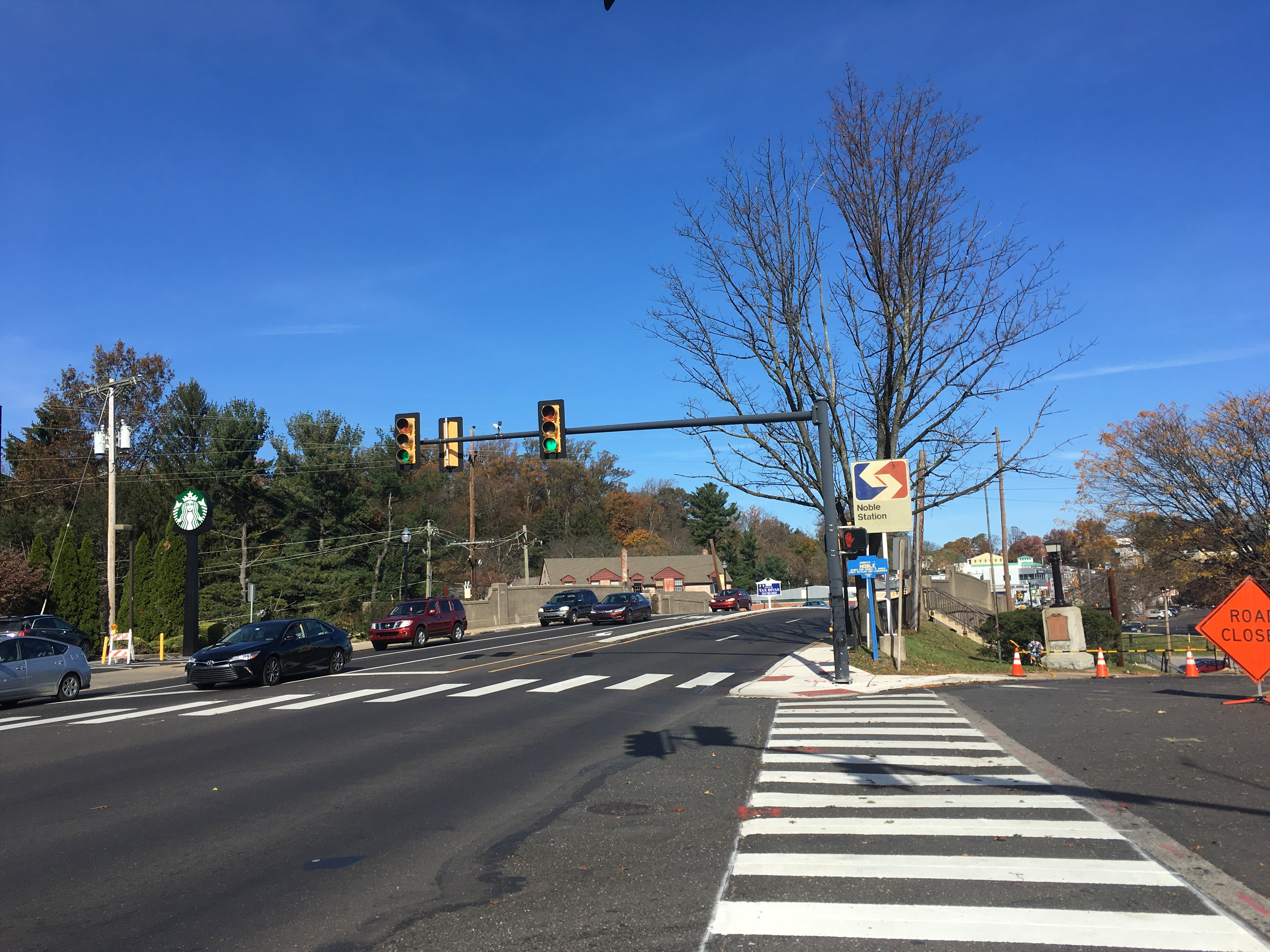 Northbound Pennsylvania Route 611 (Old York Road) at the intersection with Rodman Avenue in Abington Township, Pennsylvania